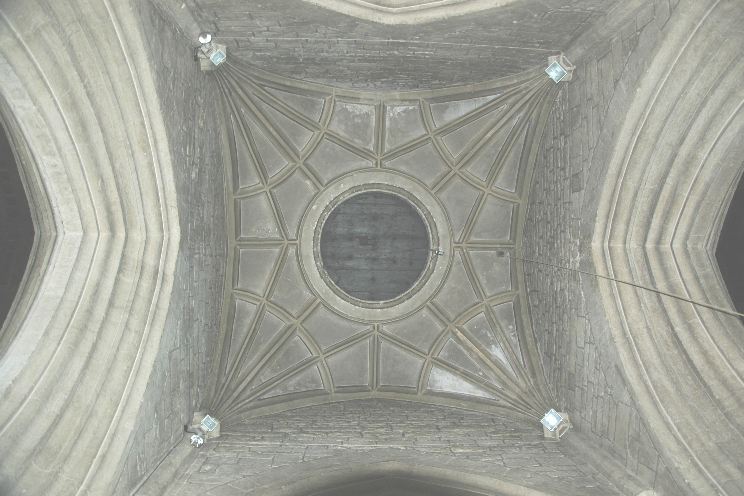 Church of England parish church of St Andrew, Shrivenham, Vale of White Horse: vault of the belltower, built circa 1400